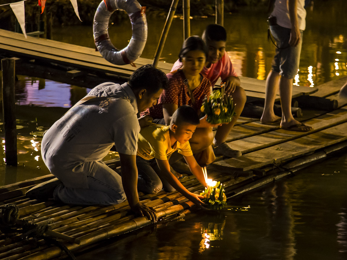 Original caption: A krathong is small container or basket made of banana leaves, adorned with flowers, incense and candles. Loy Krathong means “to float a basket” which is what many people do during the festival on one of the three days. The Thais see this as a time to wave goodbye to misfortune, wash away sins of the past year, and make wishes for the coming year. Often people will say a prayer before launching the krathong. For the romantic at heart or young couples, Loi Krathong is the time to make a wish for happiness together. watching the route that a krathong takes is a popular way for couples to predict what the future holds for their relationship. As a photographer, I was lucky to have access to a good vantage point to photograph people performing this yearly ritual. I tried to capture the spirit of the event.